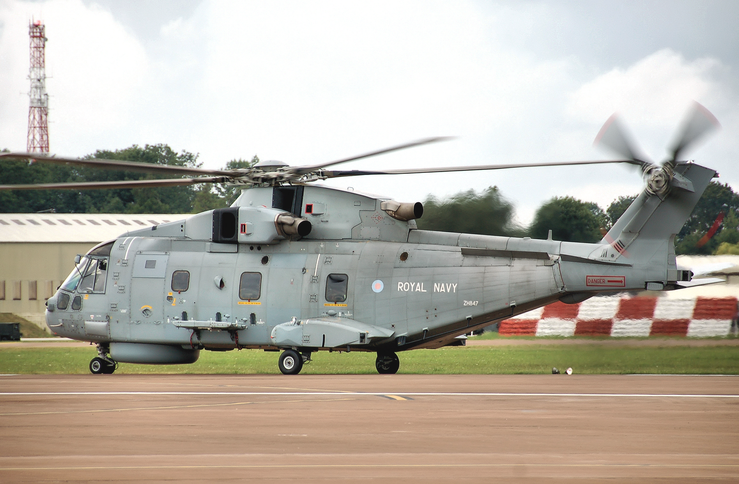 Royal Navy AgustaWestland EH-101 Merlin HM1 helicopter (Navy code ZH847) starting its takeoff run at the 2009 Royal International Air Tattoo, Fairford, Gloucestershire, England.